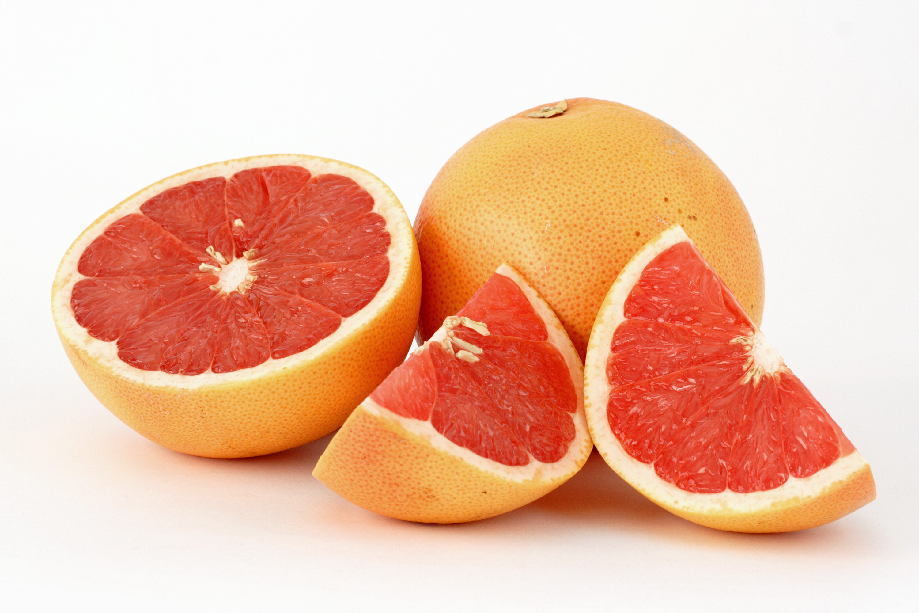 Citrus paradisi (Pink Grapefruit) This photograph shows two pink grapefruits (Citrus paradisi), one of the two cut in pieces. Camera data Camera: Canon EOS 350D Lens: EF 50 mm 1:1.8 II Exposure time: 2 s Sensivity: ISO 100